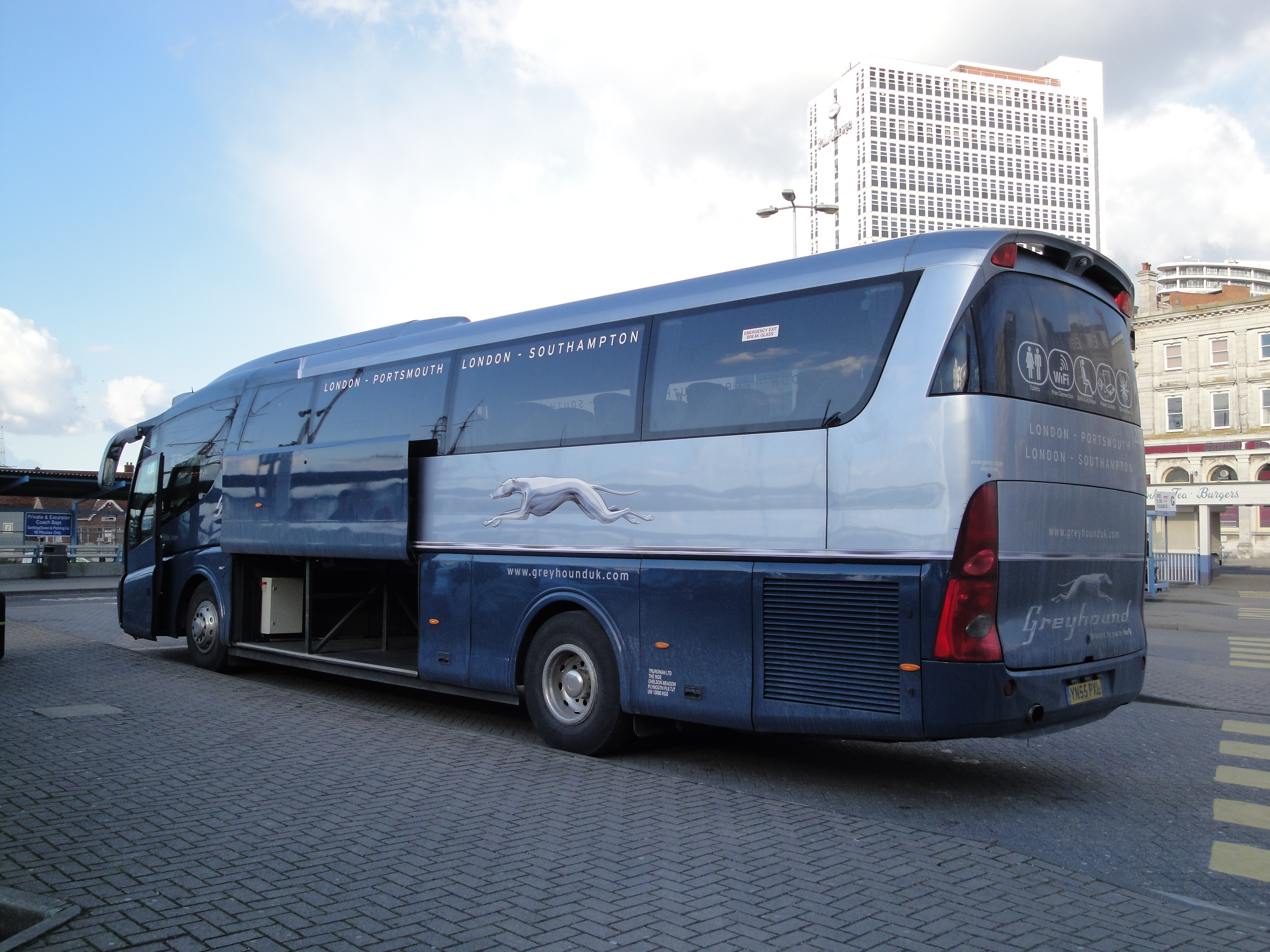 The rear of Greyhound UK 23320 Billie Jean (YN55 PXL), a Scania K114EB/Irizar in The Hard Interchange, Portsmouth, Hampshire.